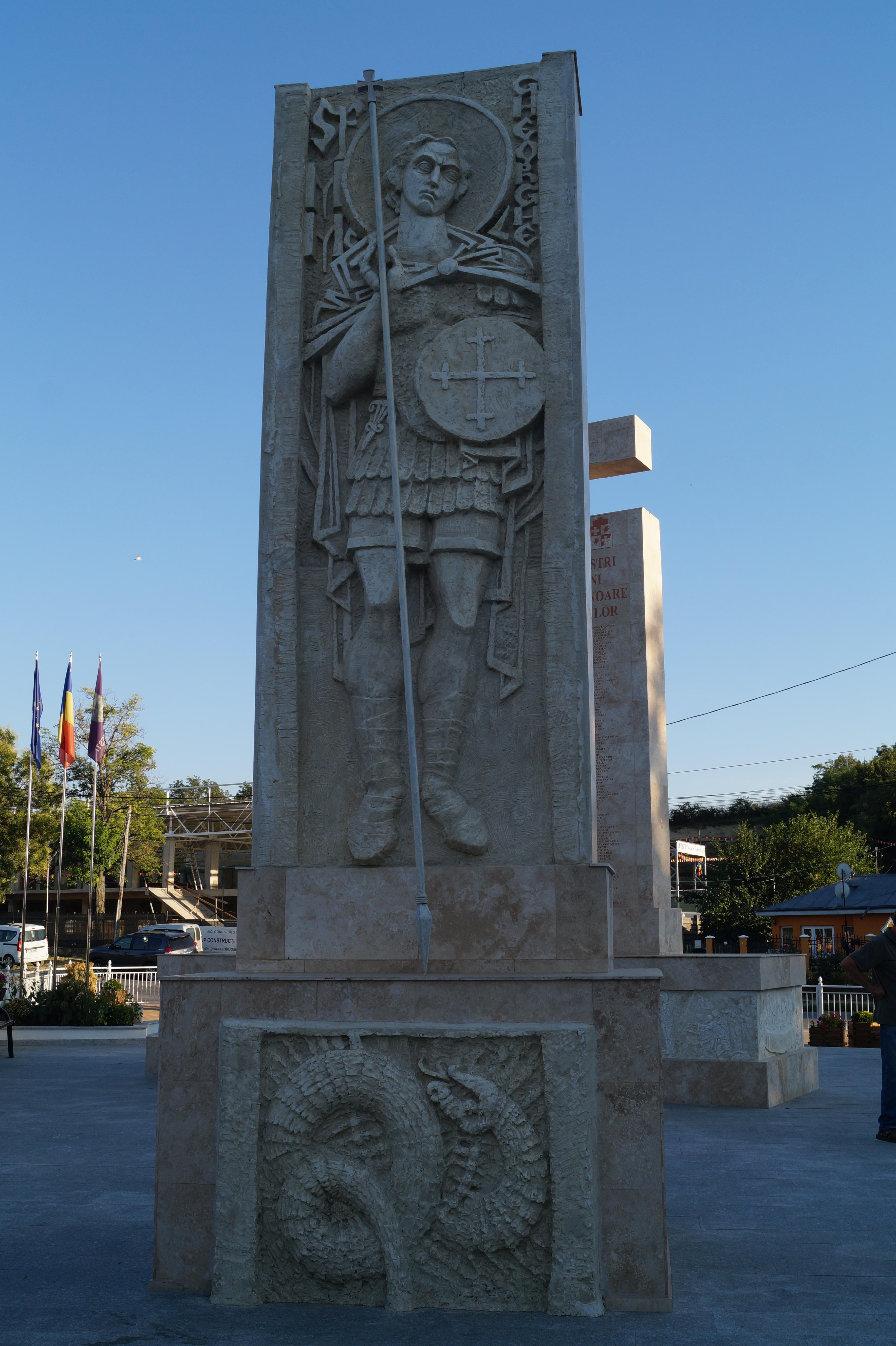 Spirit and memory Assembly detali st. George